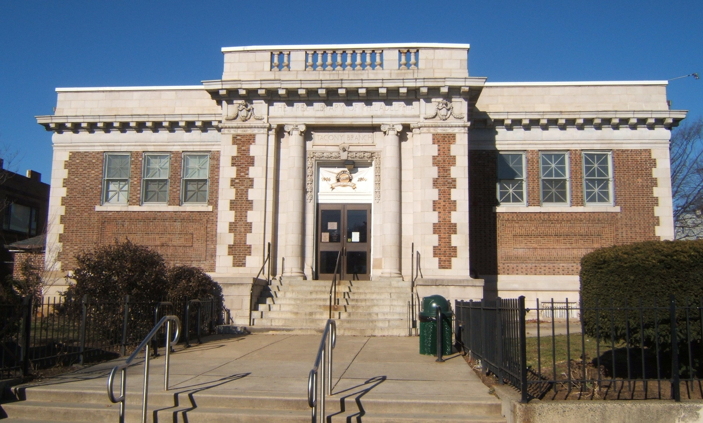 Phila_FLP_Tacony Free Library of Philadelphia - Tacony Branch Opened November 27, 1906. Land a gift of the Disston Family, building a gift of Andrew Carnegie. 6742 Torresdale Avenue Philadelphia PA 19135 Object location40° 01′ 28.71″ N, 75° 02′ 44.76″ W